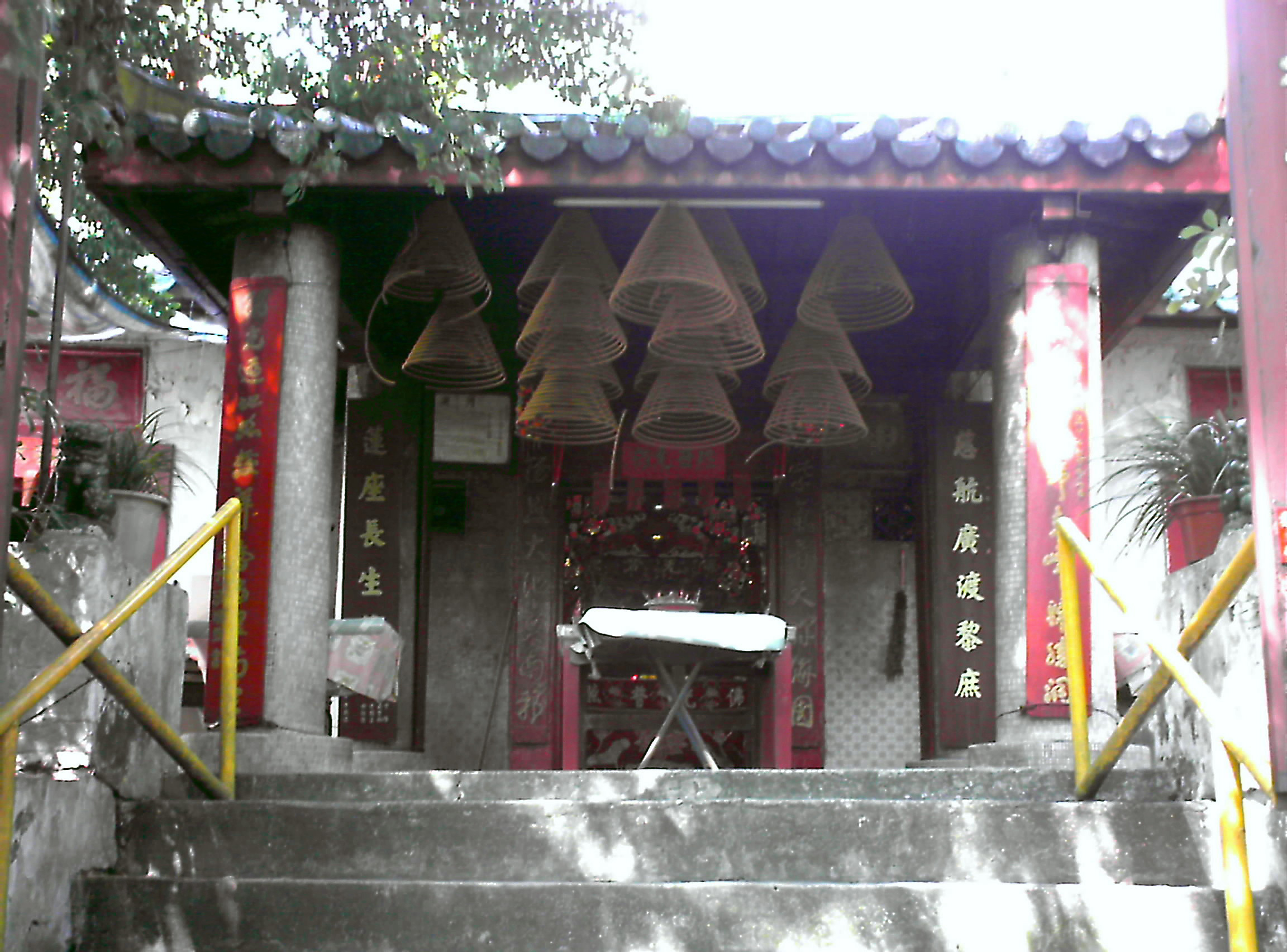 Tse Yeung Tung Main Hall 中文（香港）: 紫陽洞佛堂的大殿